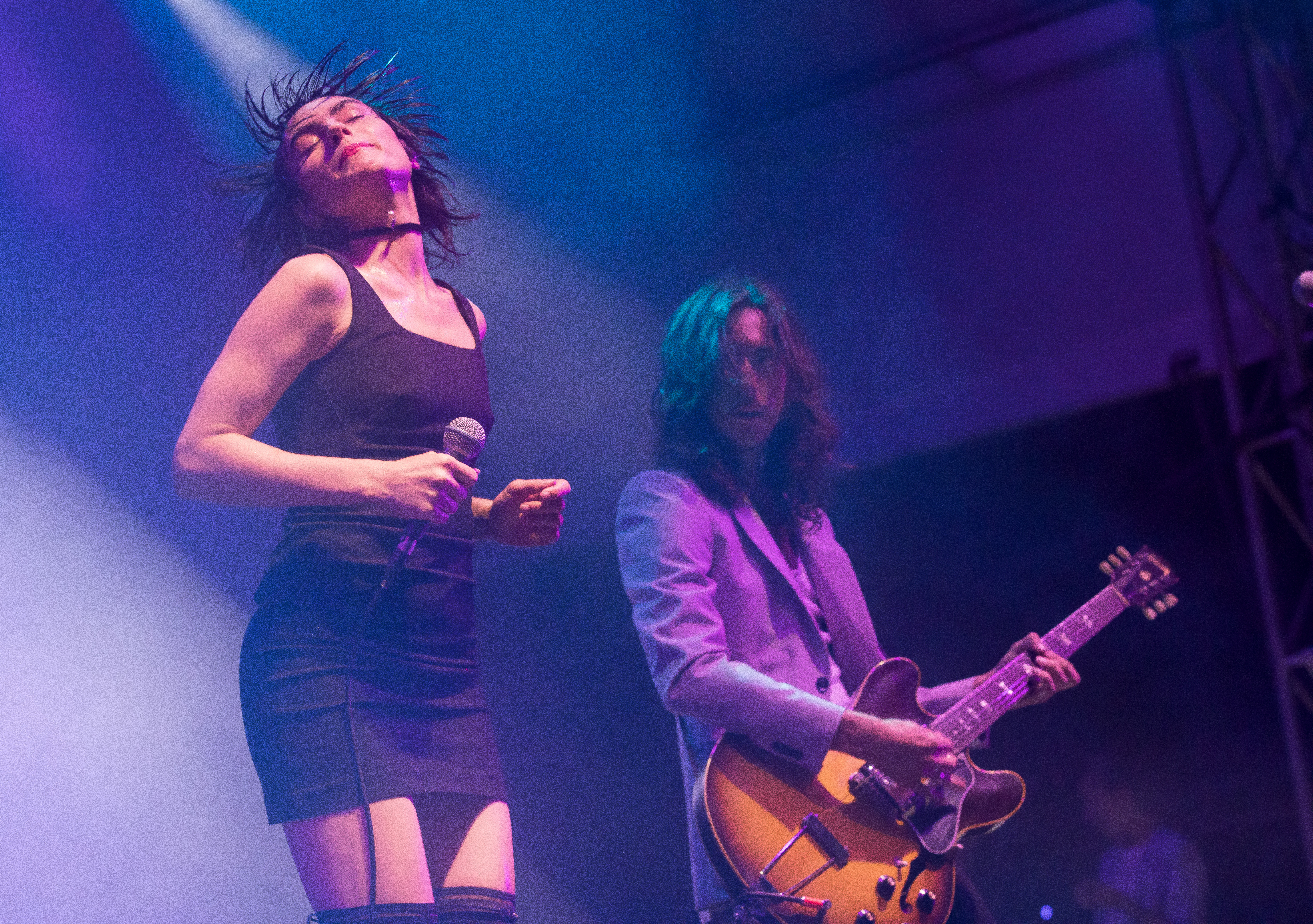 Image of The Preatures playing live